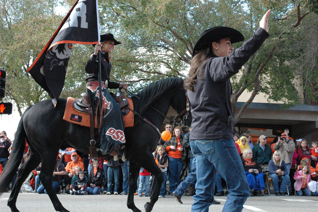 OSU Spirit rider in the 2009 Homecoming Parade